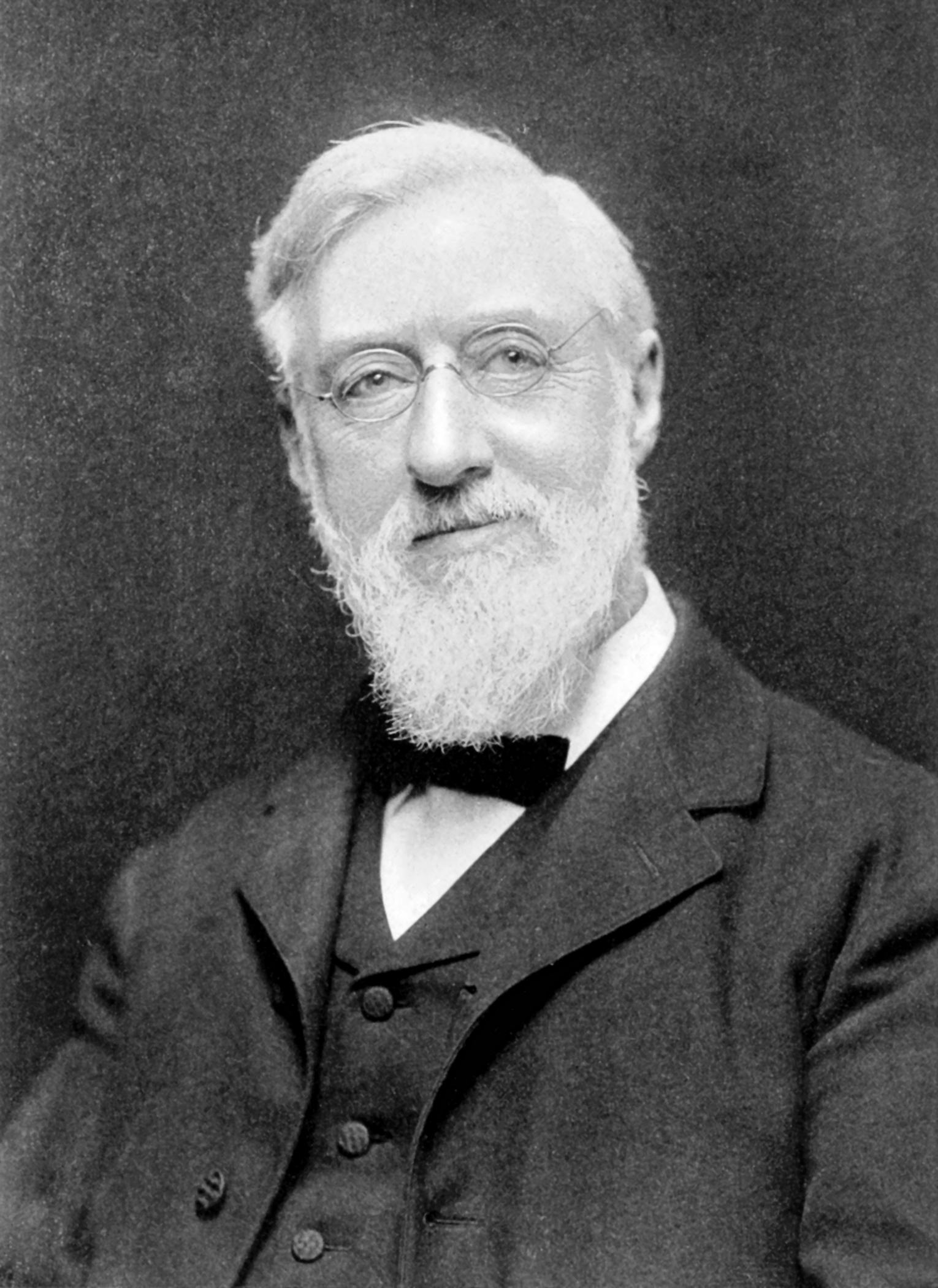 Photograph of James E. Scripps